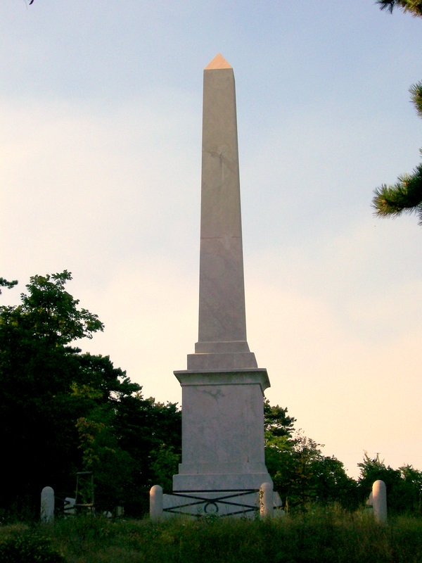 Francis I of Austria Obelisk, Opicina, Trieste, Italy